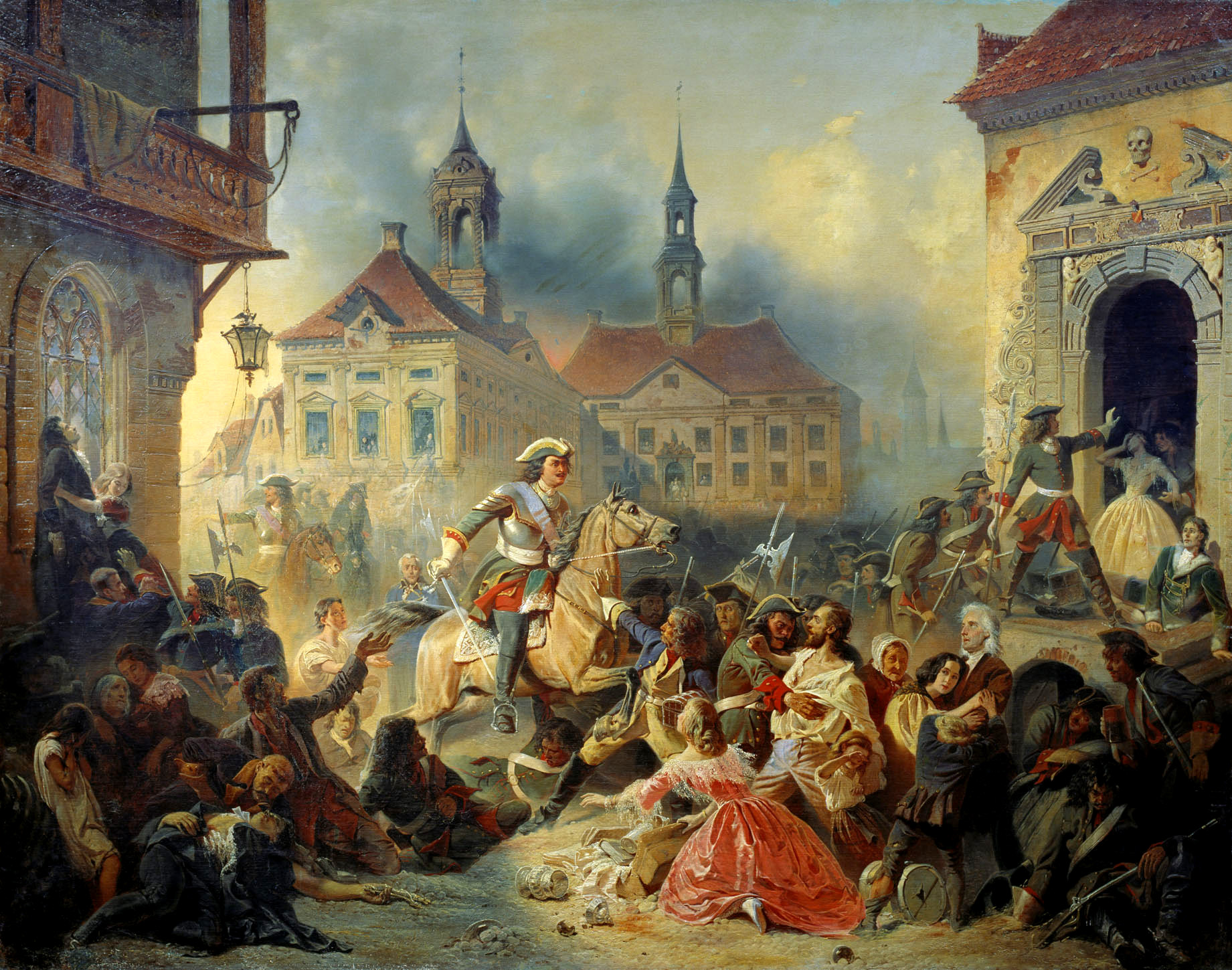 Peter I of Russia stops maraudering soldiers after taking Narva in 1704